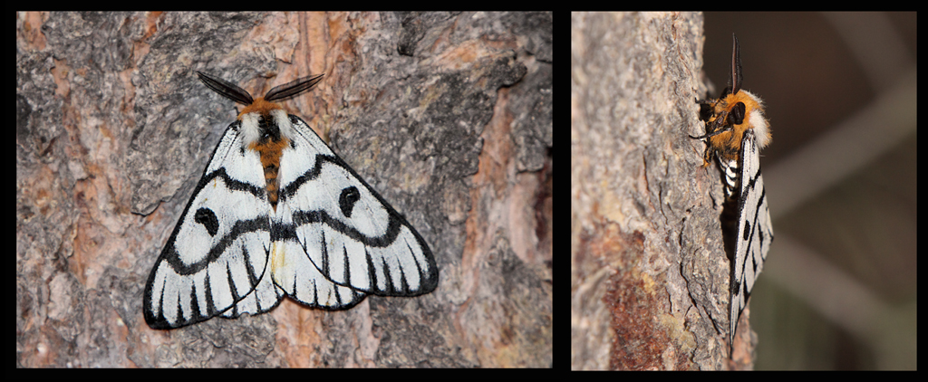 This beautiful moth was observed in Grand Tetons National Park, resting on a Lodgepole pine tree. It was about 2 inches long. Thanks to "urtica" for the id. It is of the wild silk moth family (Saturniidae).